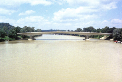 Putnam Street crossing the Muskingum River at Marietta, Ohio, USA